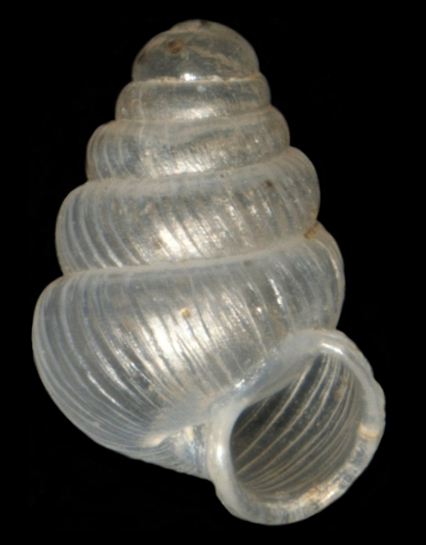 Paratype of Zospeum percostulatum